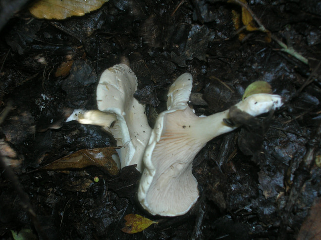 Clitopilus prunulus